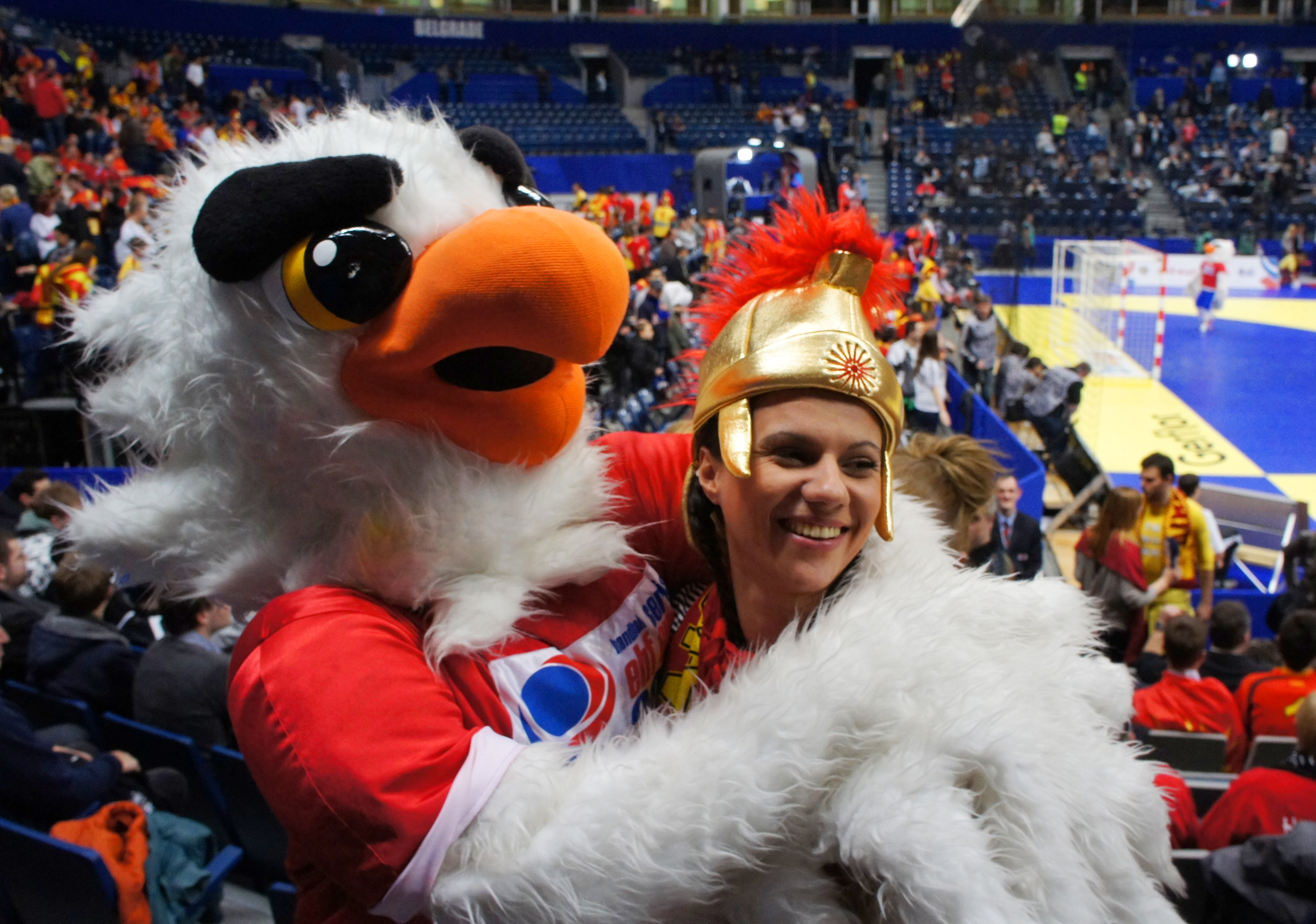 Mascot Tasa (eagle) with Macedonian fan in hoplite outfit in Belgrade Arena match Macedonia vs Denmark. Part of 2012 European Men's Handball Championship in Serbia.